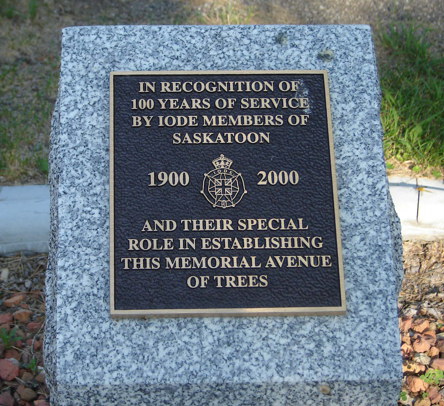 The Next-Of-Kin Memorial Avenue at Woodlawn Cemetery Saskatoon Saskatchewan Canada City of Saskatoon · Departments · Infrastructure Services · Parks